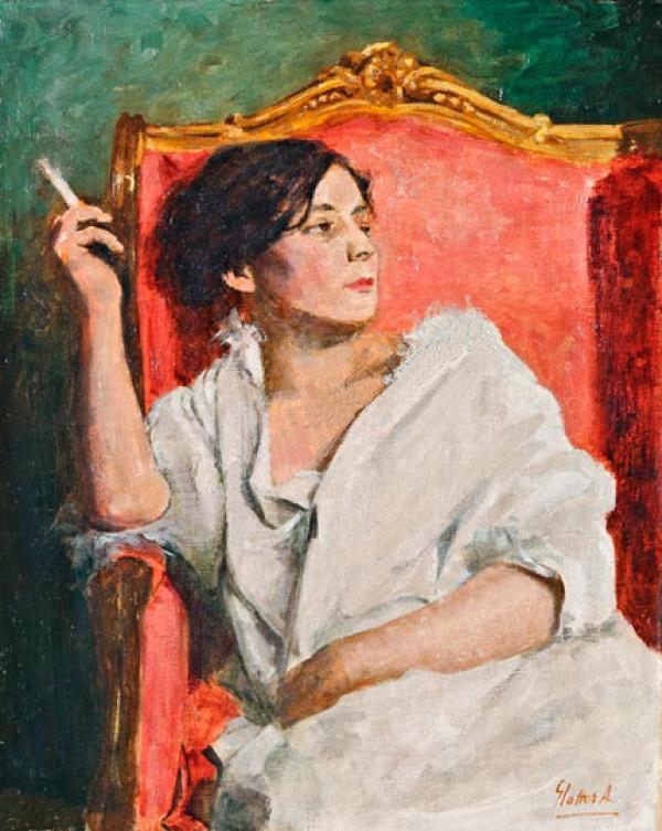 Woman in the armchair